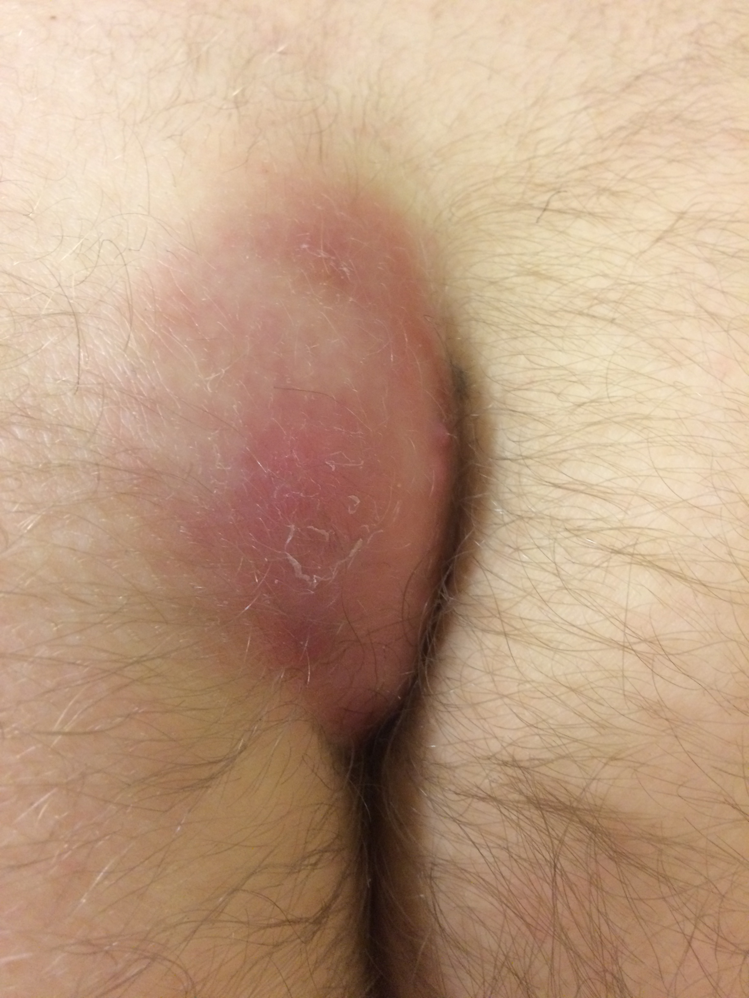 An acute presentation of pilonidal sinus disease, with an abscess in the natal cleft. Treatment should be with incision and drainage, the incision made away from the midline